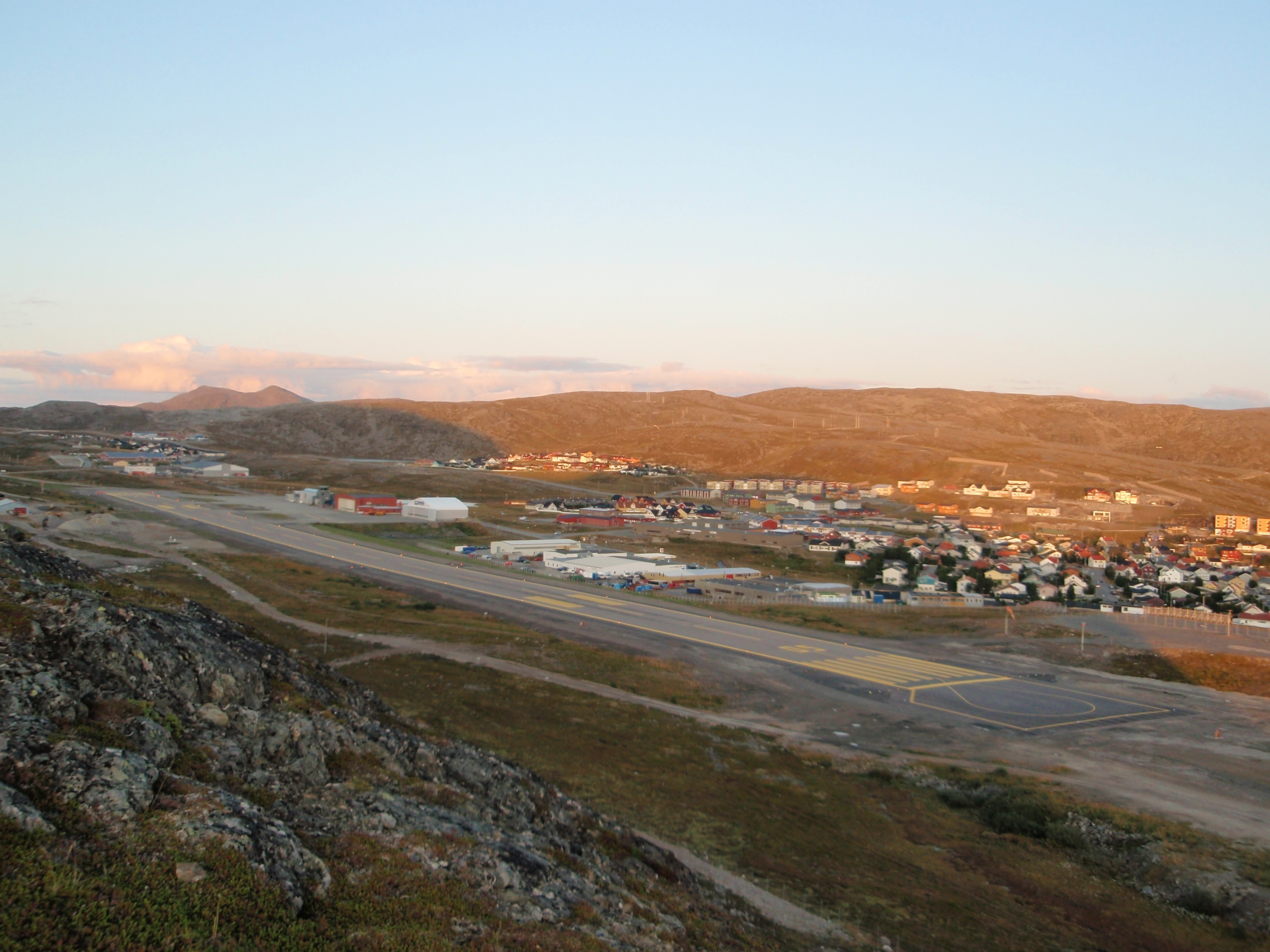 View of Hammerfest Airport from nearby hilltop.